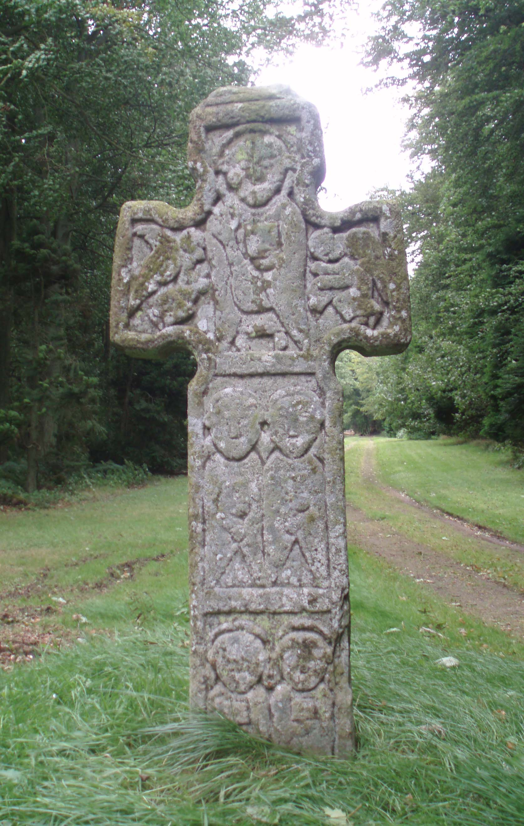 The Camus Cross, circa 9th/10th century Pictish Cross